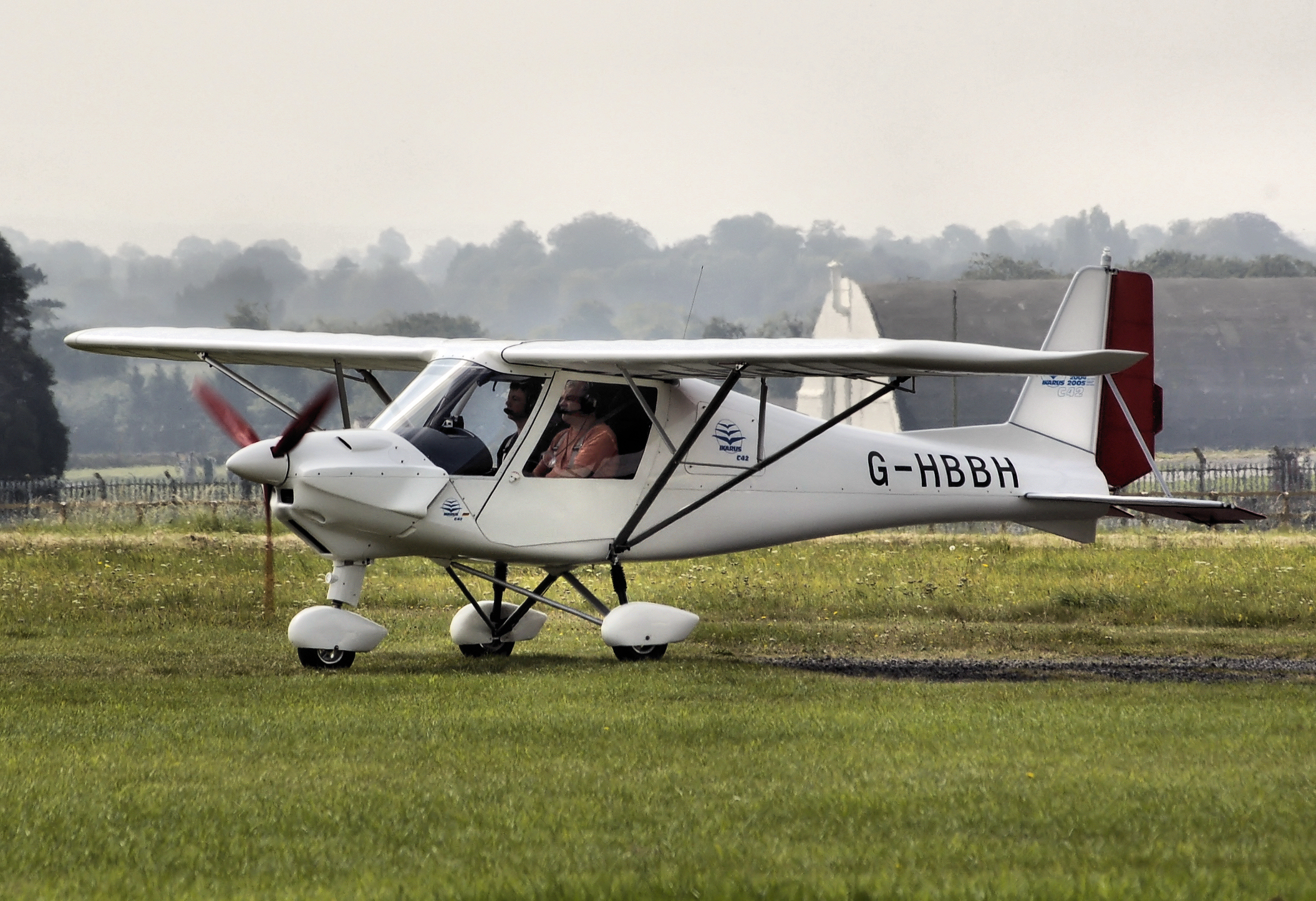 Ikarus C42 FB100 microlight (G-HBBH) at Kemble Airport Open Day on September 9th 2007 at Kemble, Gloucestershire, England. Photographed by Adrian Pingstone and placed in the public domain.